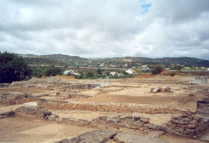 Photographer: cathar maiden (summer 2004)